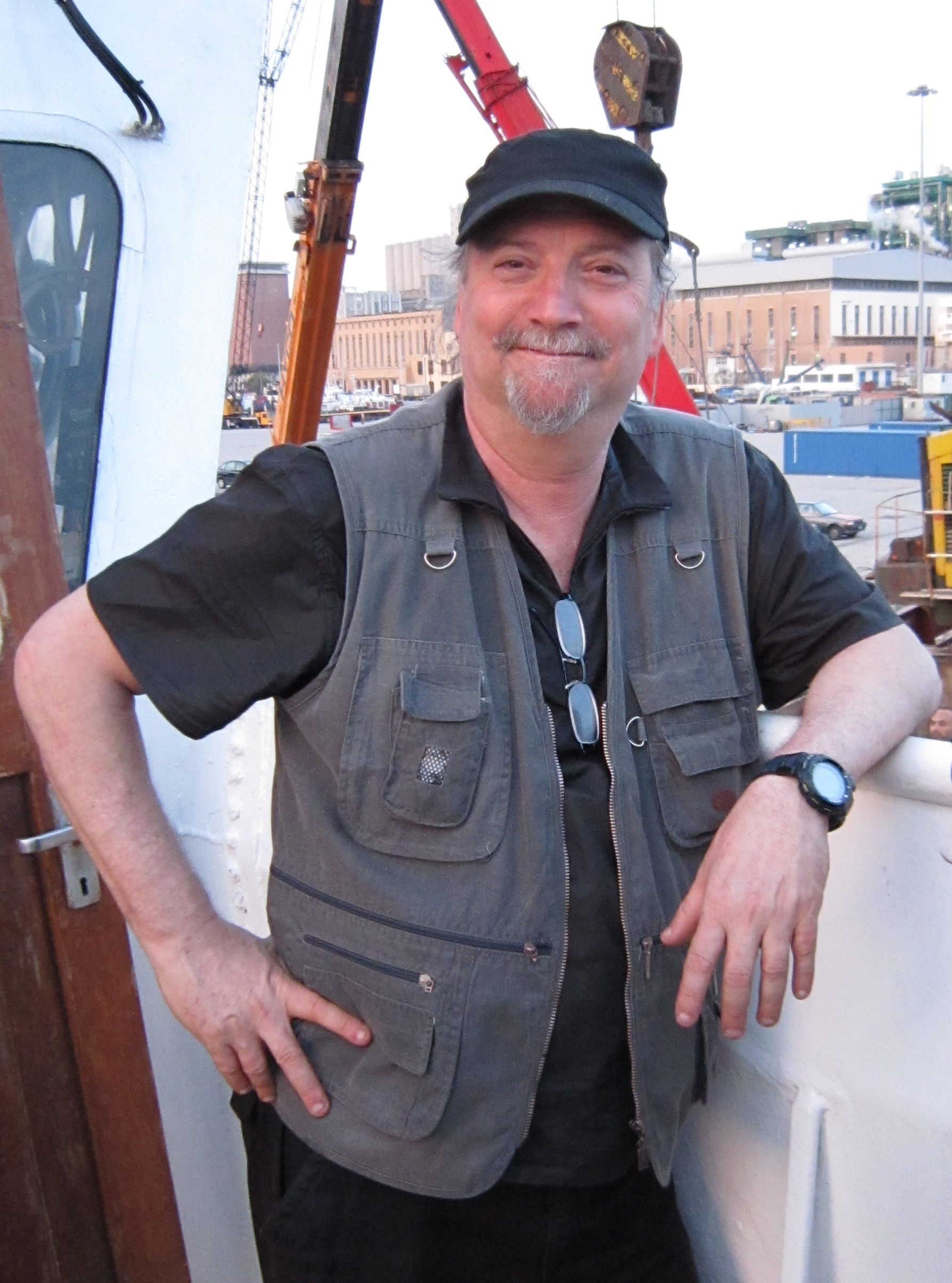 Dror Feiler pleased on board MV Sofia